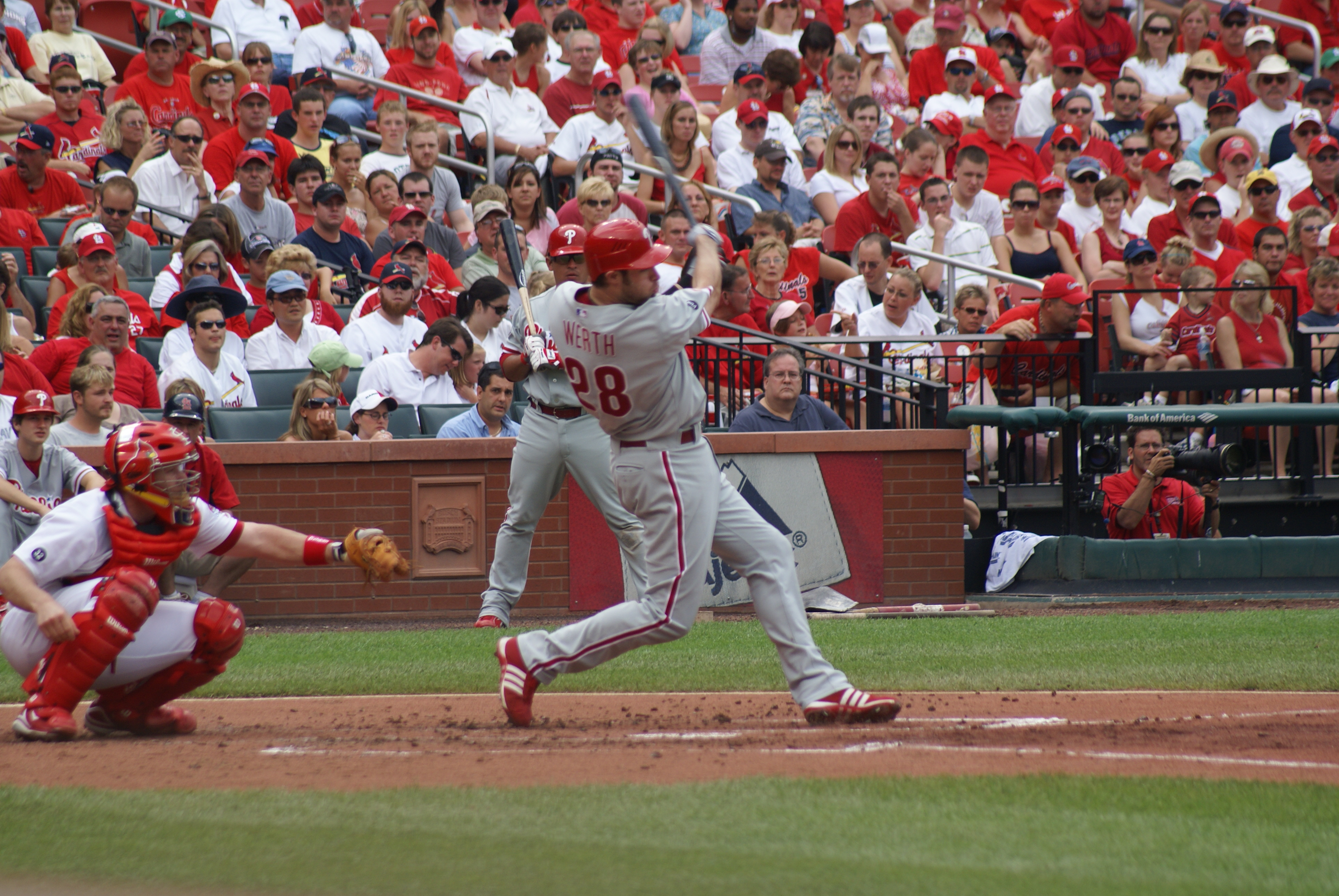 Jayson Werth